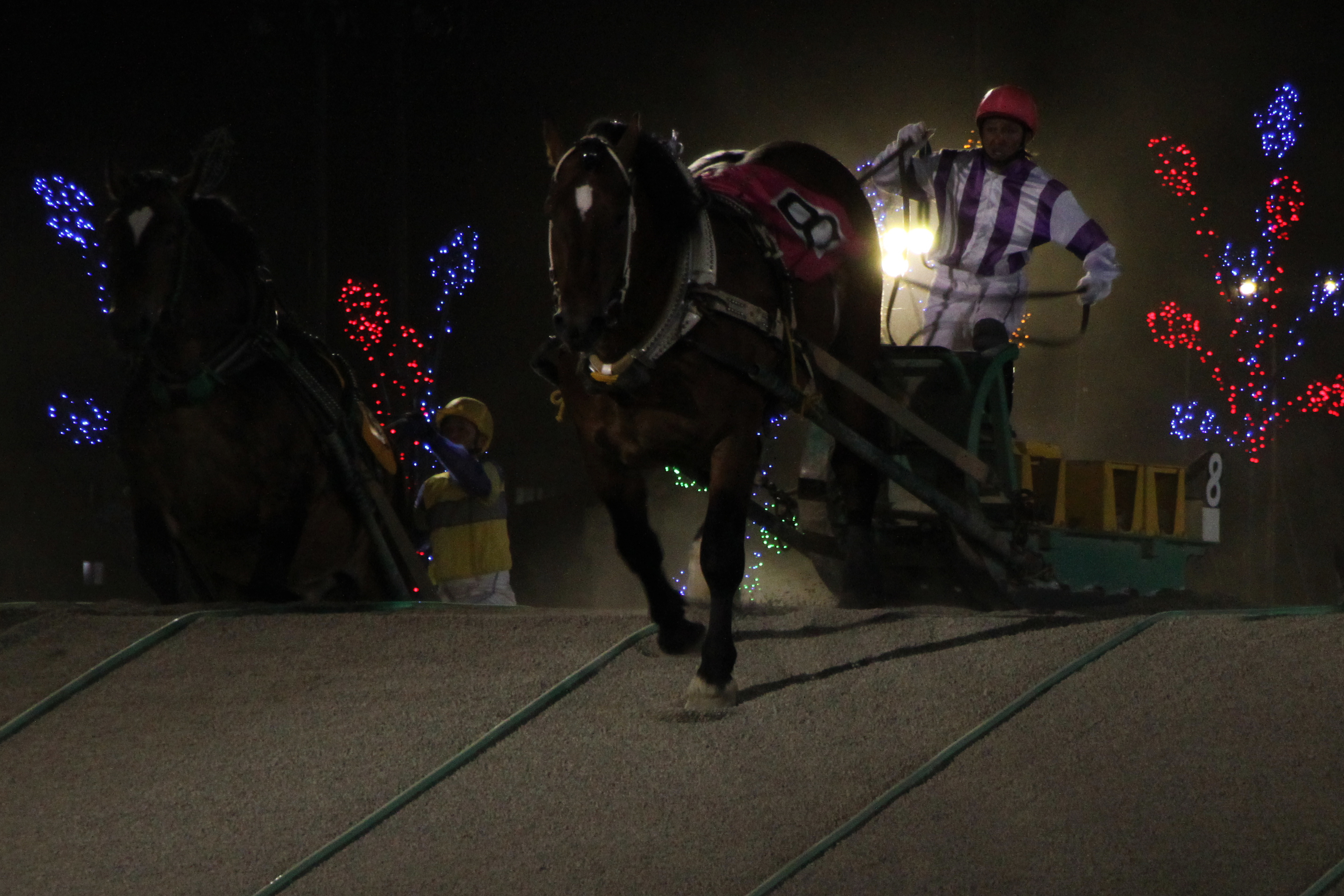 Ban'ei(Obihiro Racecourse)